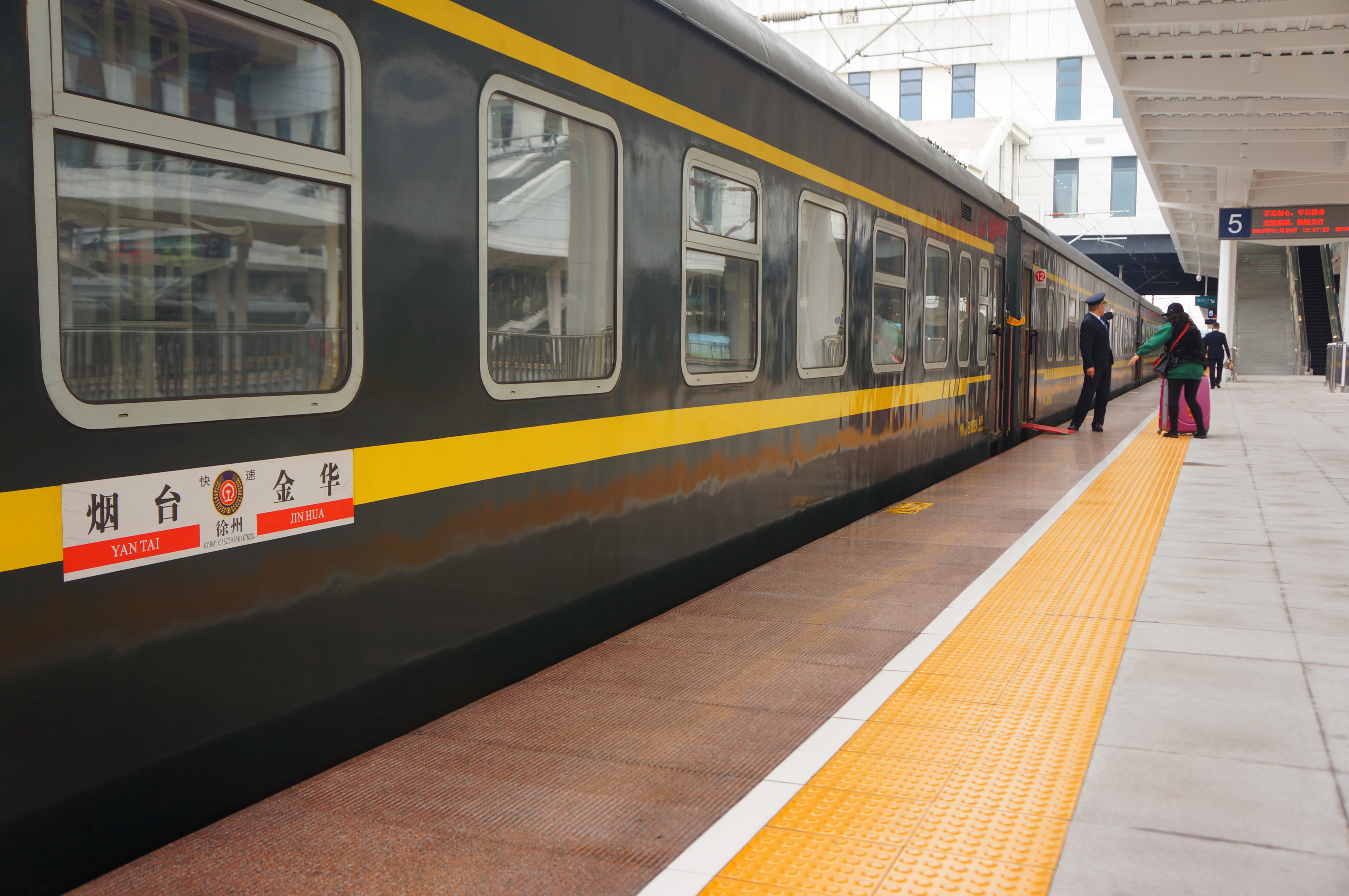 201901 Coaches of K1181 at Jinhua Station